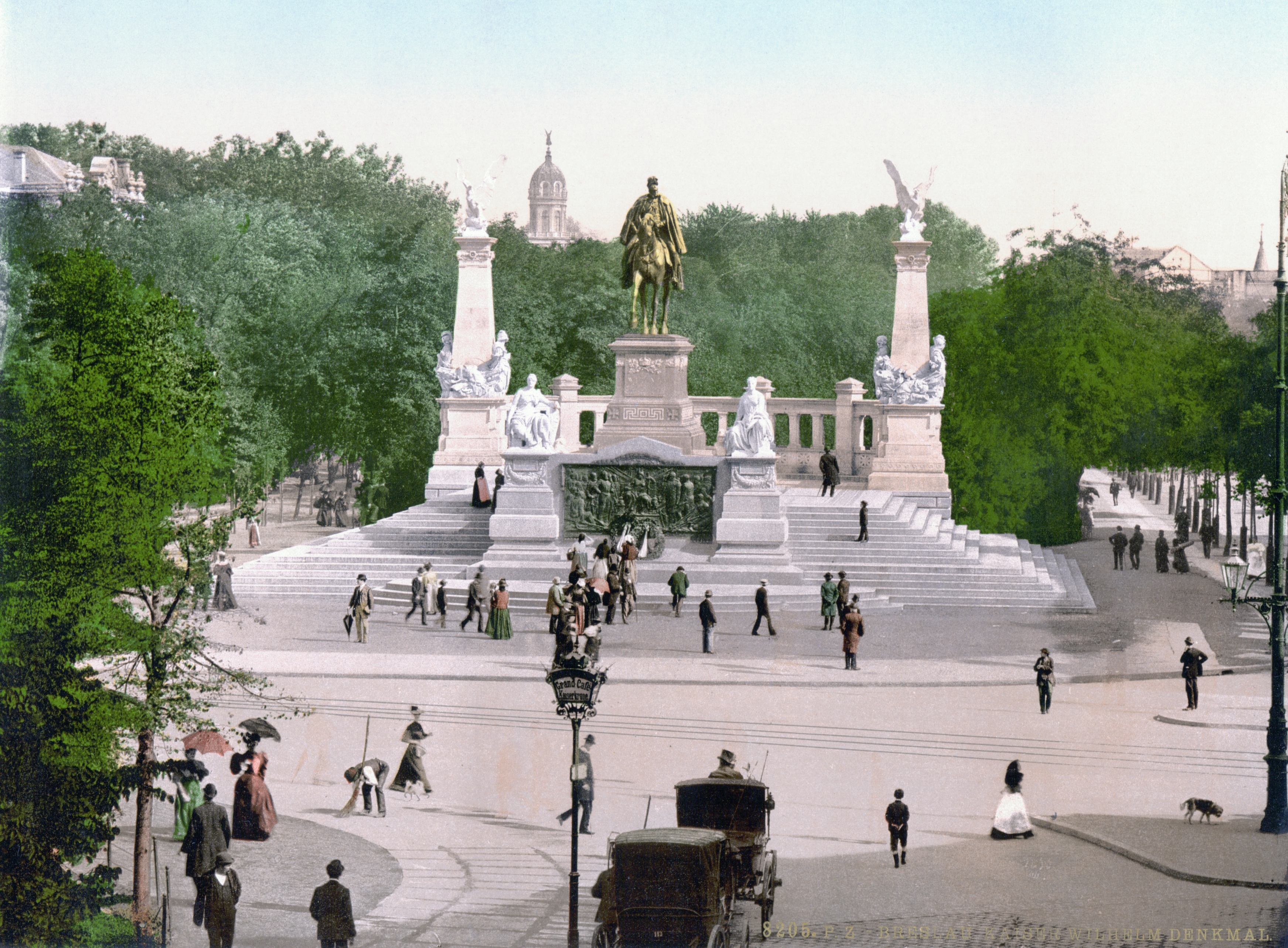 Emperor William's Memorial, Breslau, Silesia, Germany (i.e., Wrocław, Poland)